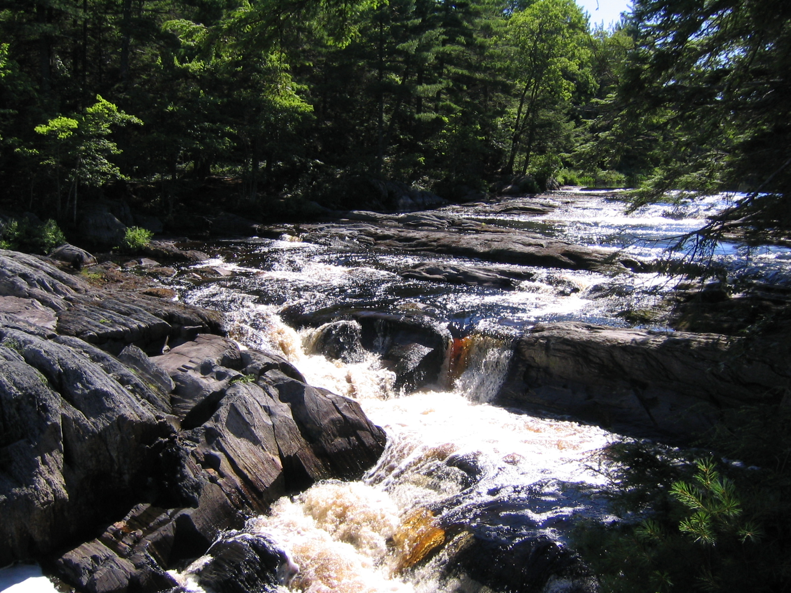 Kejimkujik National Park (Mersey River), Nova Scotia